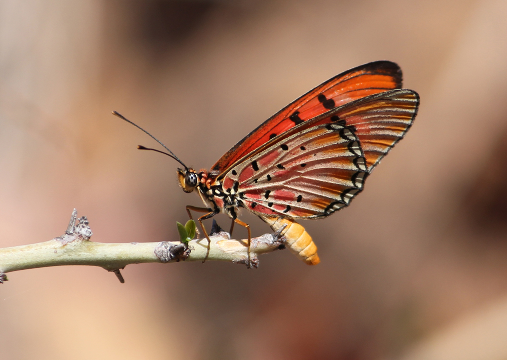 Acraea aglaonice, photographed in the Sand River Gorge, Medike Mountain Sanctuary, Soutpansberg, South Africa.